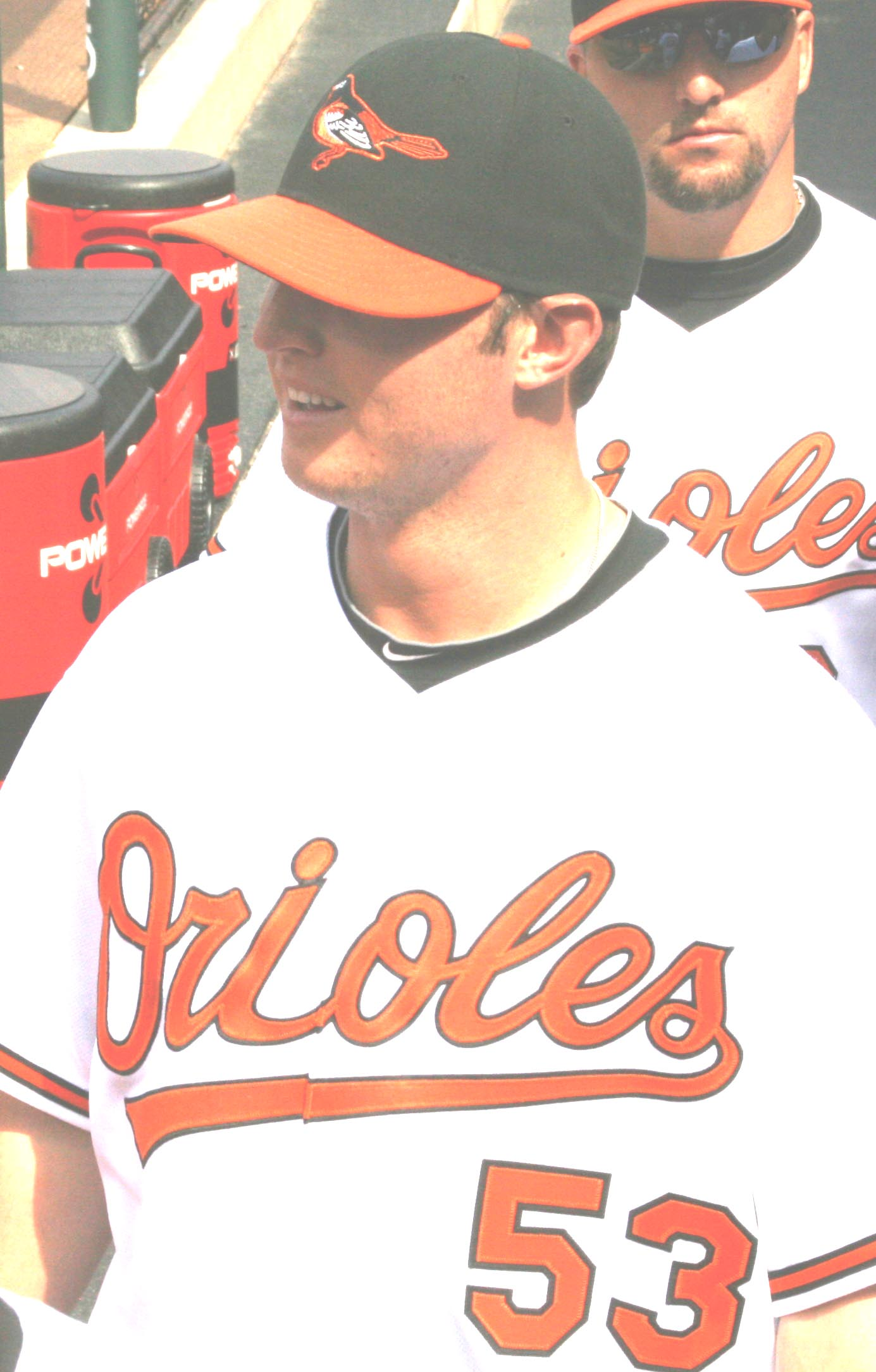 Baltimore Orioles riole pitcher Zach Britton